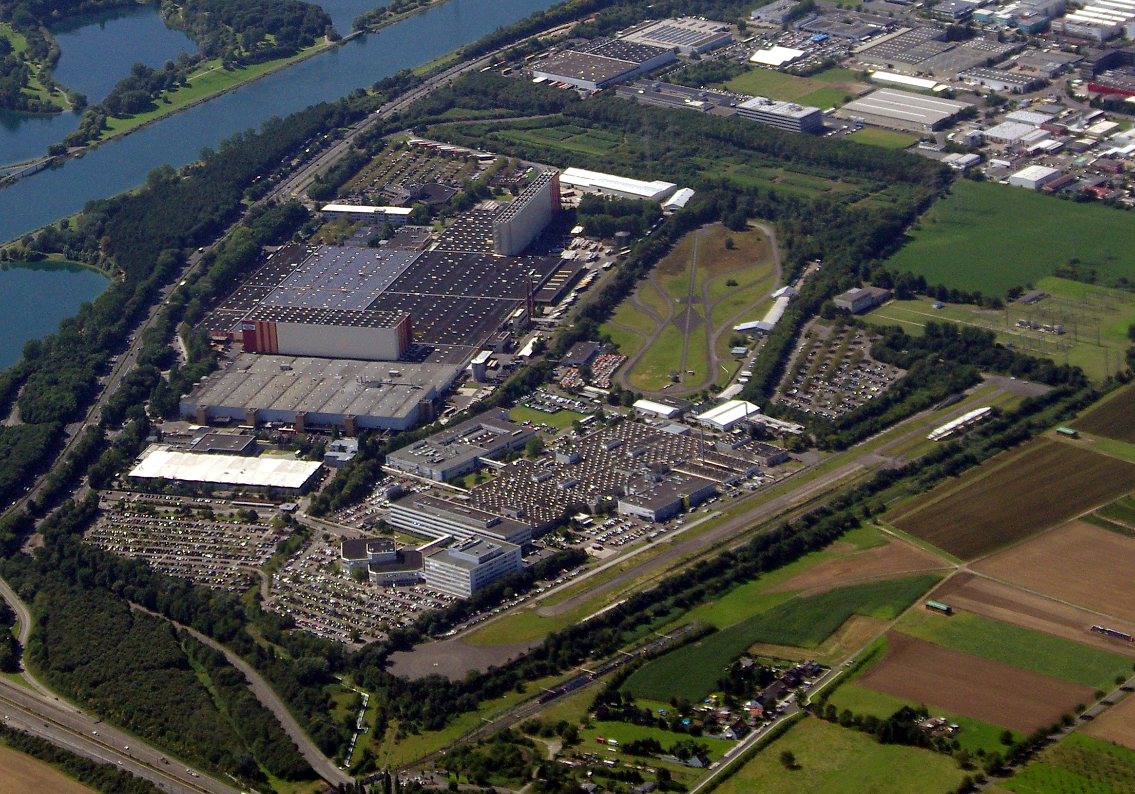 Aerial view of the Ford development center in Cologne